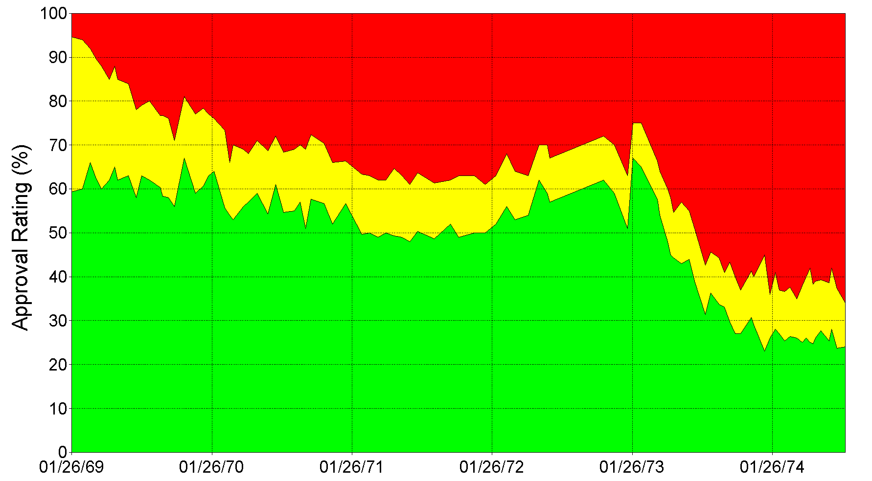 Approval Rating for President Richard Nixon. Data from Gallup Poll.